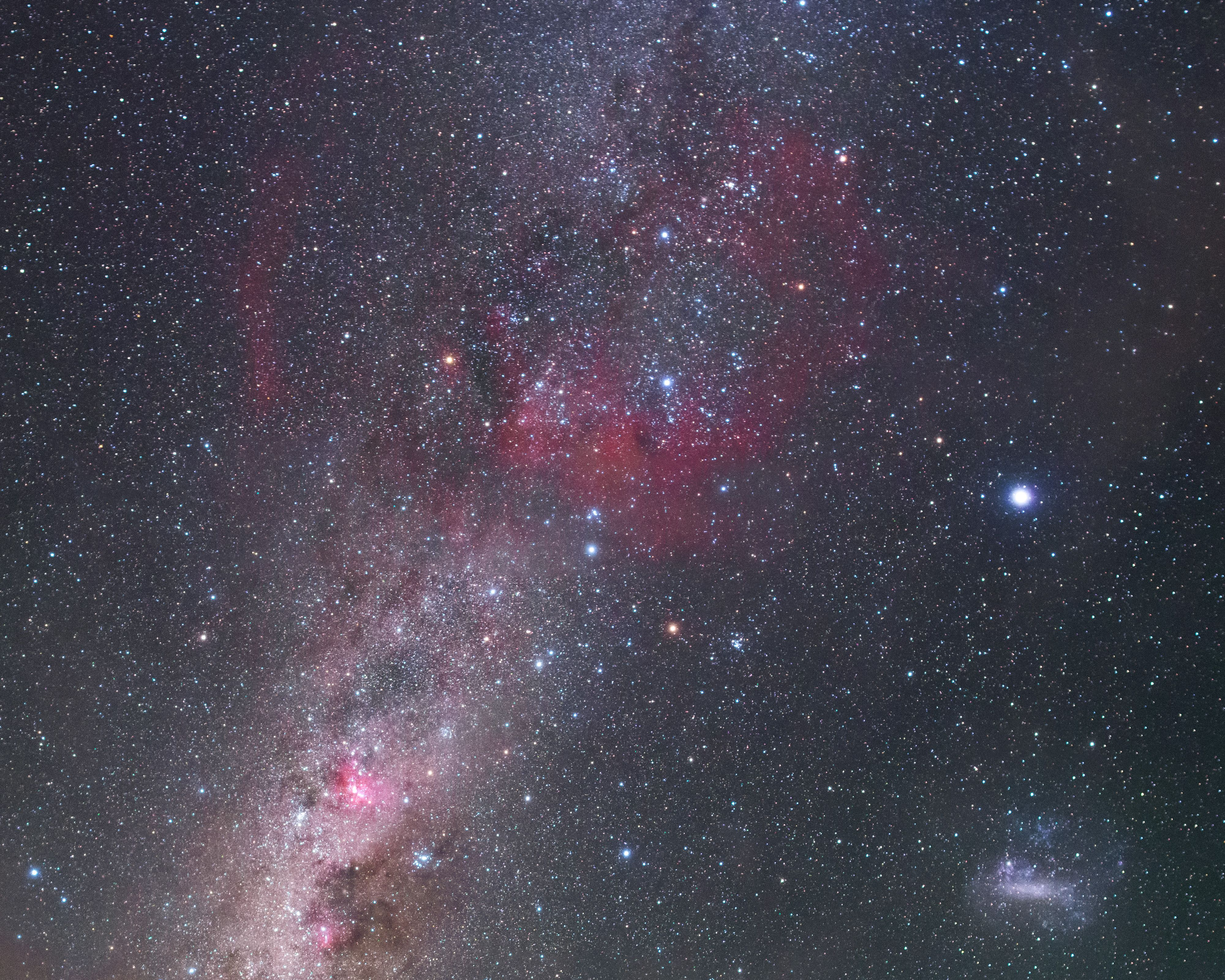 Gum Nebula visible at the background of the Milky Way, with Large Magellanic Cloud in the bottom right for scale. The brightest star in this view is Canopus. Picture cropped from: File:A spectacular view over the Atacama.jpg